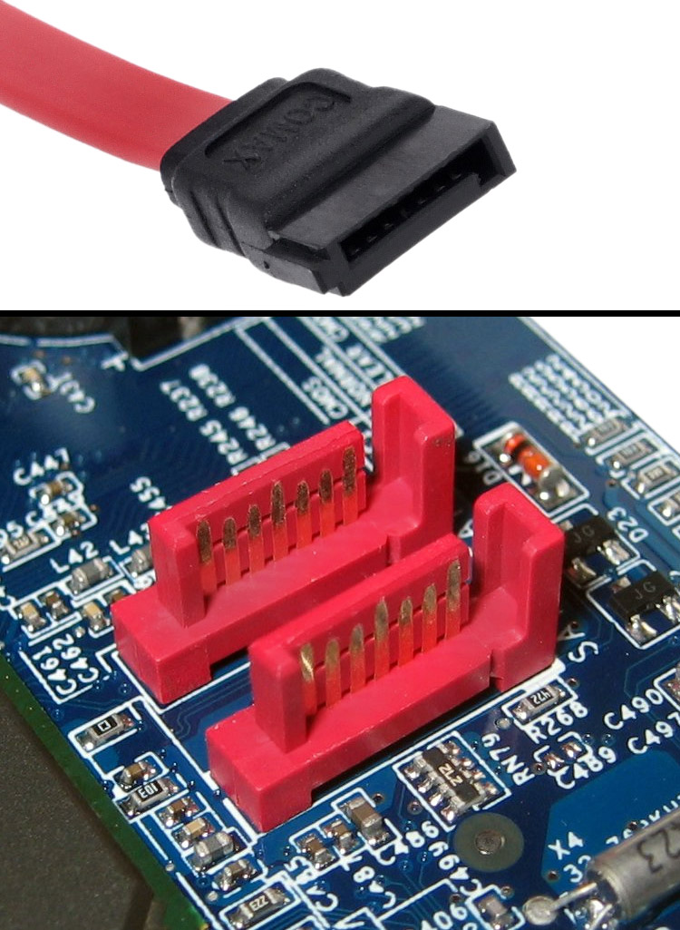 Photo of SATA ports on a motherboard